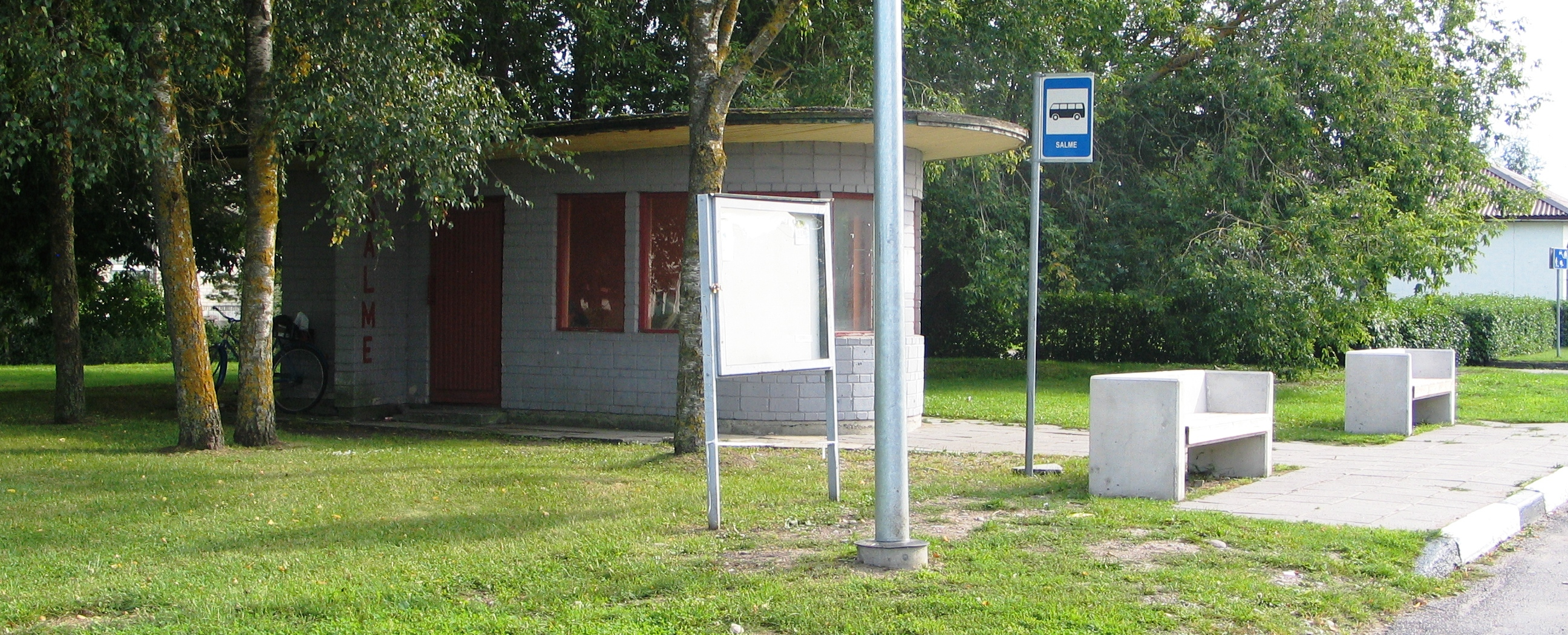 A bus stop in Salme.